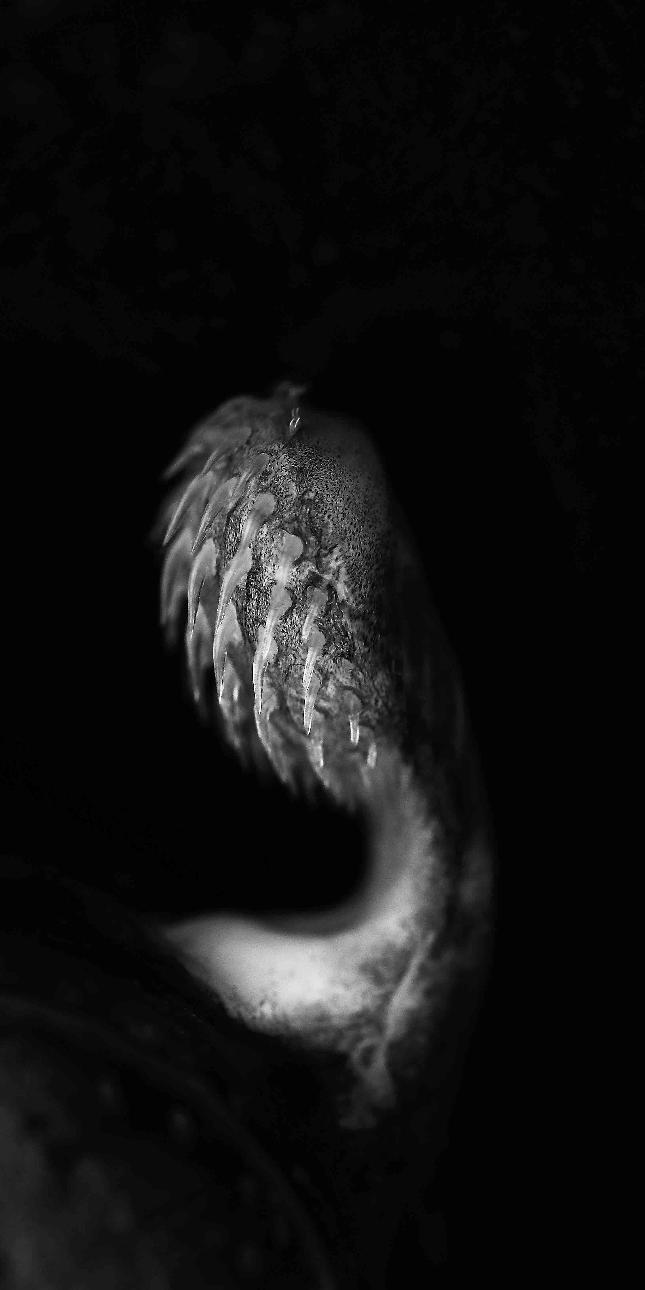 hook tooth